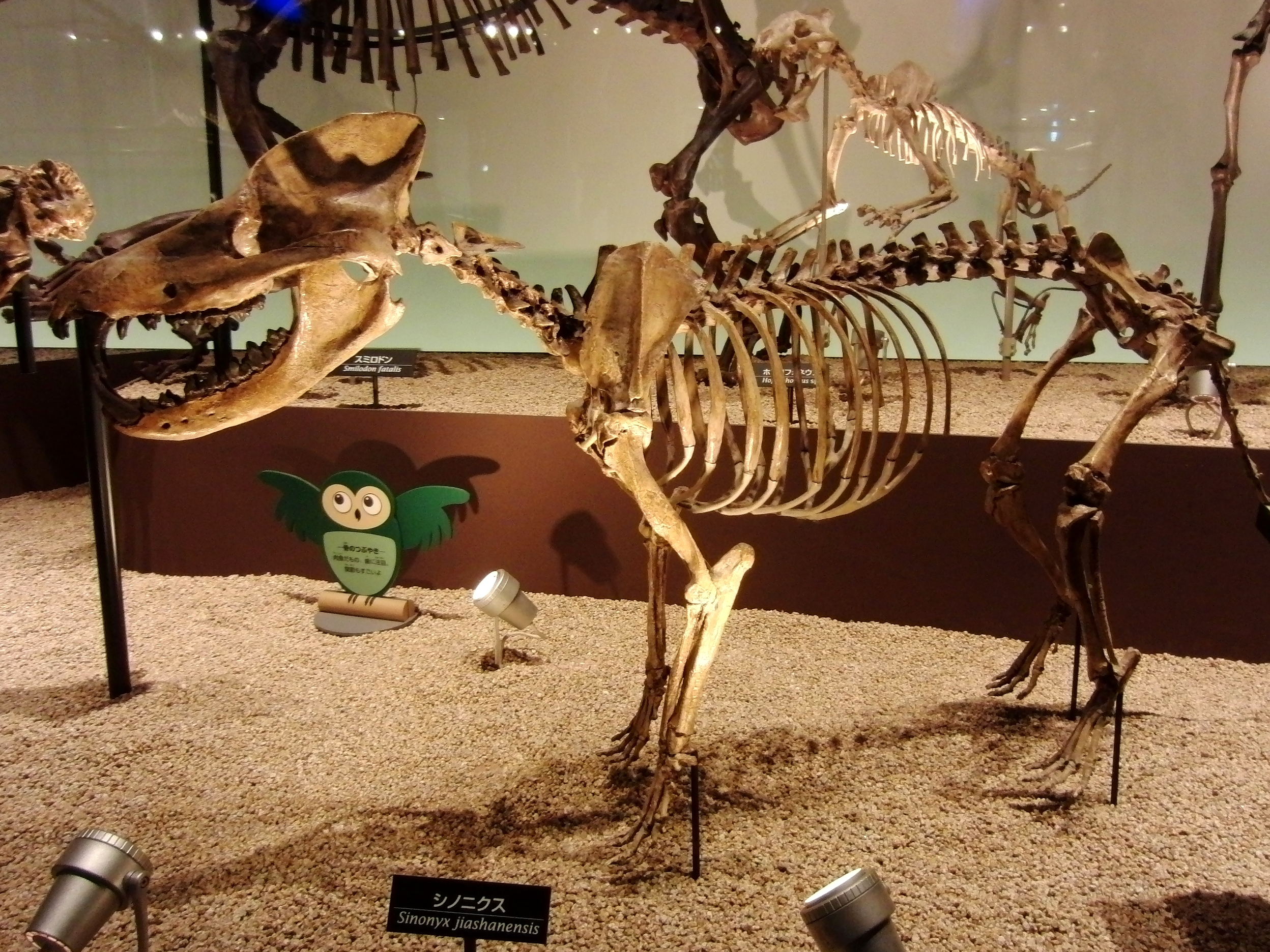 Skelton of Sinonyx jiashanensis. Exhibit in the National Museum of Nature and Science, Tokyo, Japan.